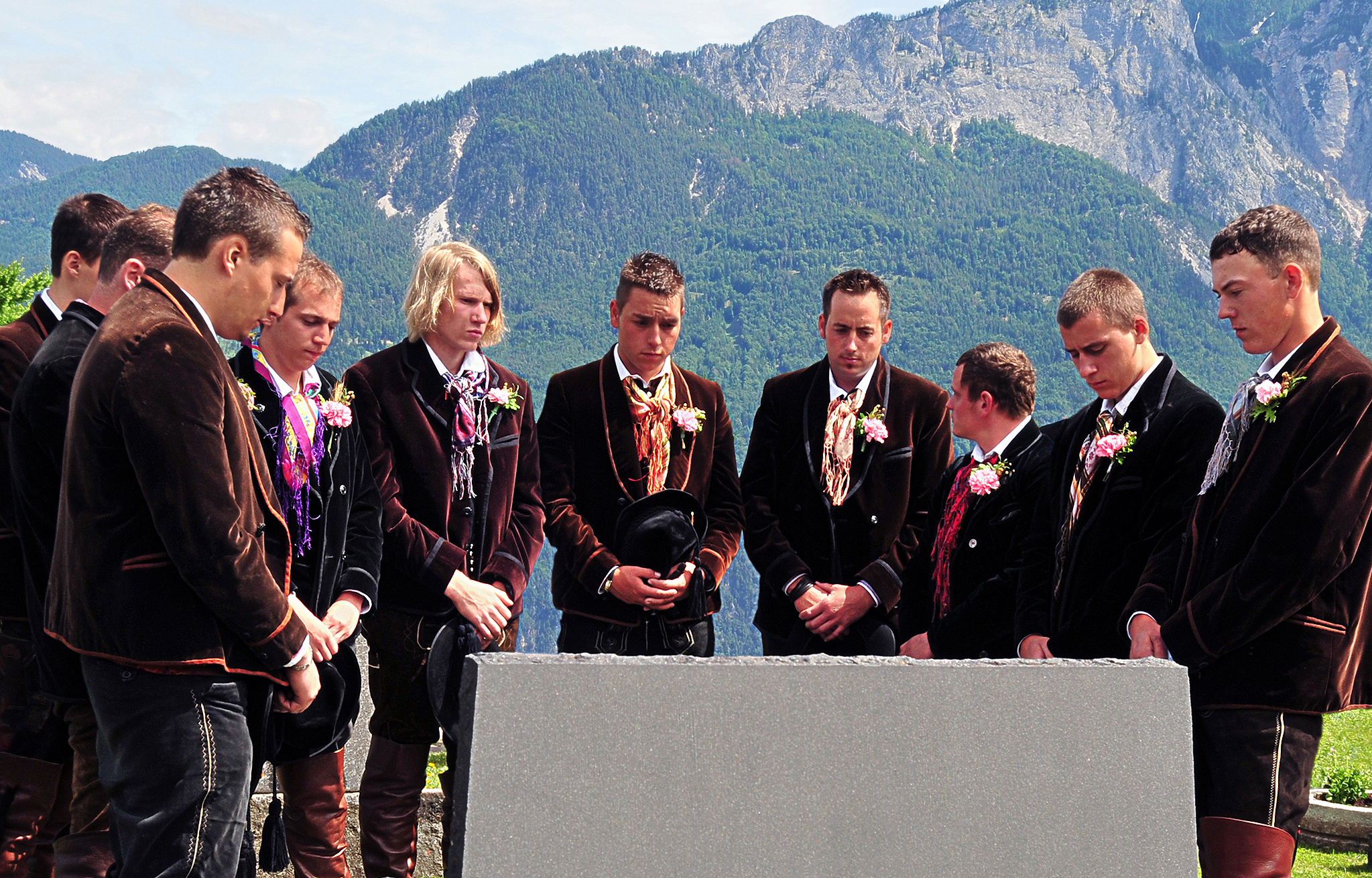 Moment of silence in the Gailtal wearing the traditional folk costumes by the Gailtal in Carinthia, Republic of Austria.